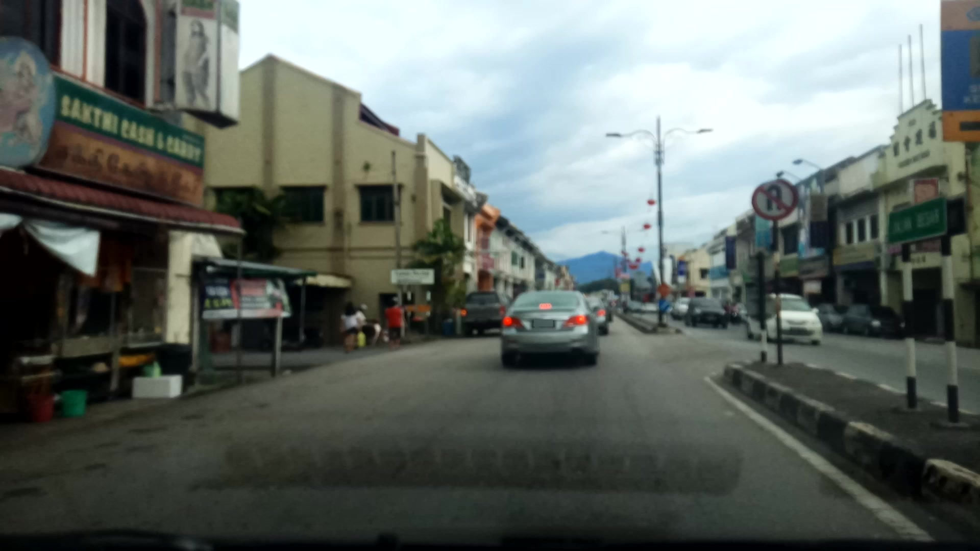 Sungai Siput main street view